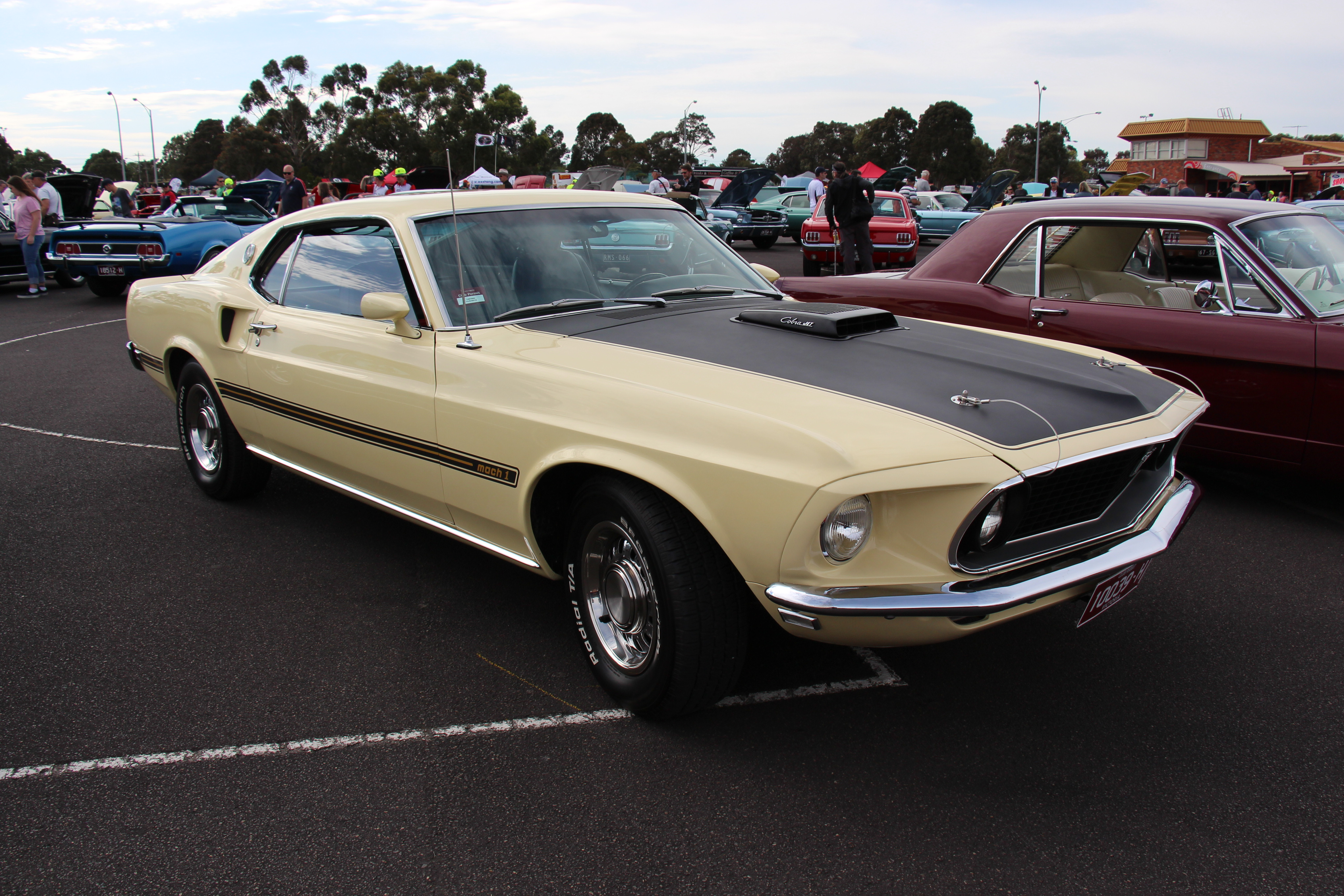 Meadowlark Yellow with Ram air. The 1969 Mustang got a new body, nearly 4 inches longer than the 1968 model. The Fastback was now called the Sportsroof and the sporty model was now the Mach 1, it got sports suspension, reflective striping, matt black hood, with functional scoop and lock pins. Other options were the 'Shaker' hood, front and rear spoilers and rear window louvre. Engines available in the Mach 1 were; 2 and 4 bbl 351 Windsor V8s, the 390 and 428 Cobra Jet and Super Cobra Jet. Other Sportsroofs available were the Boss 302 (for Trans Am homologation) and Boss 429 (for NASCAR homologation) Hardtops and Convertibles also available in base models Engines; 200 and 250 6s or 302, 351 and 390 V8s also 428 Cobra Jet (with or without Ram air), Boss 302 and 429.